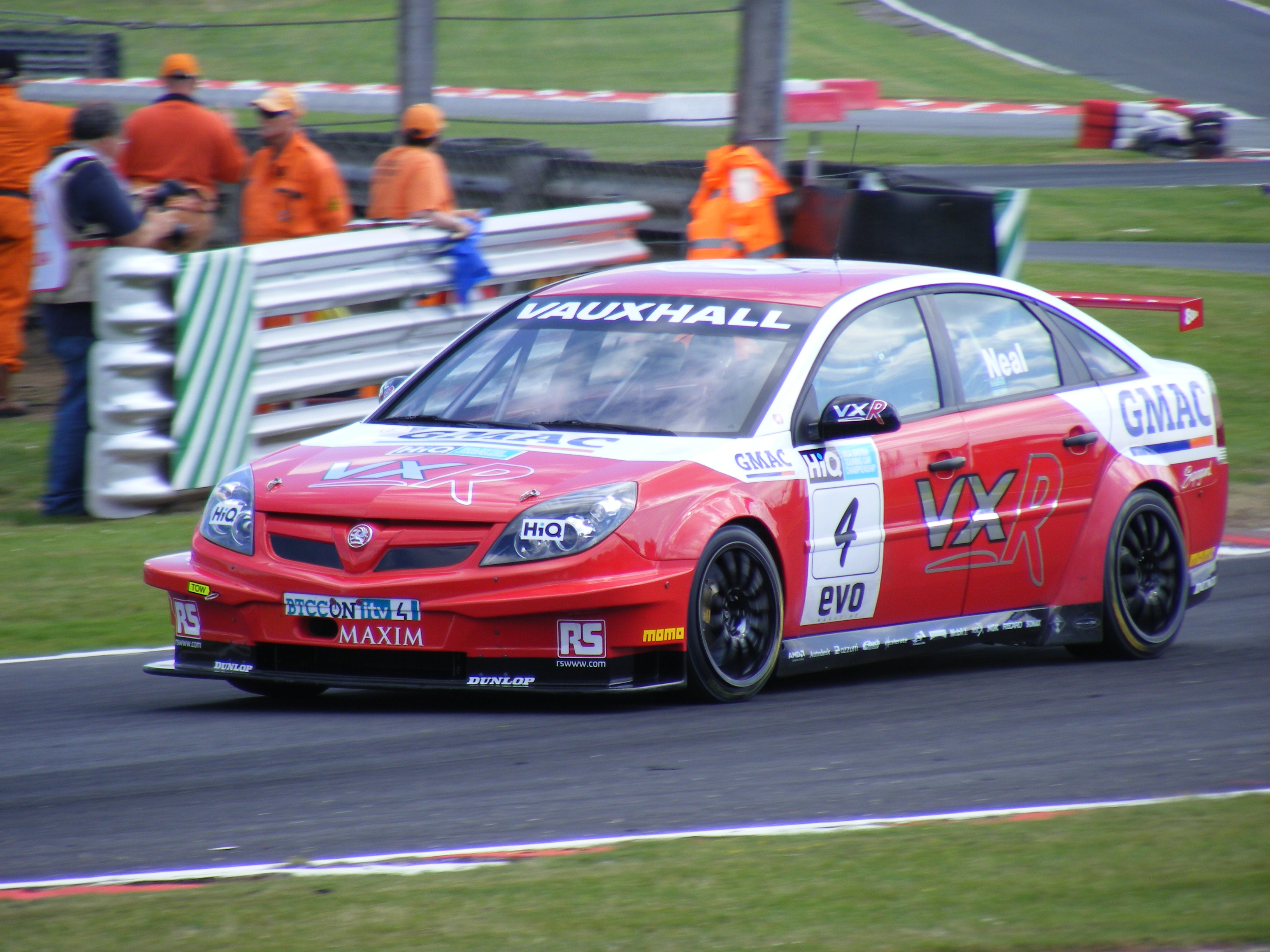 Matt Neal goes through Knickerbrook during the BTCC qualifying session at Oulton Park.